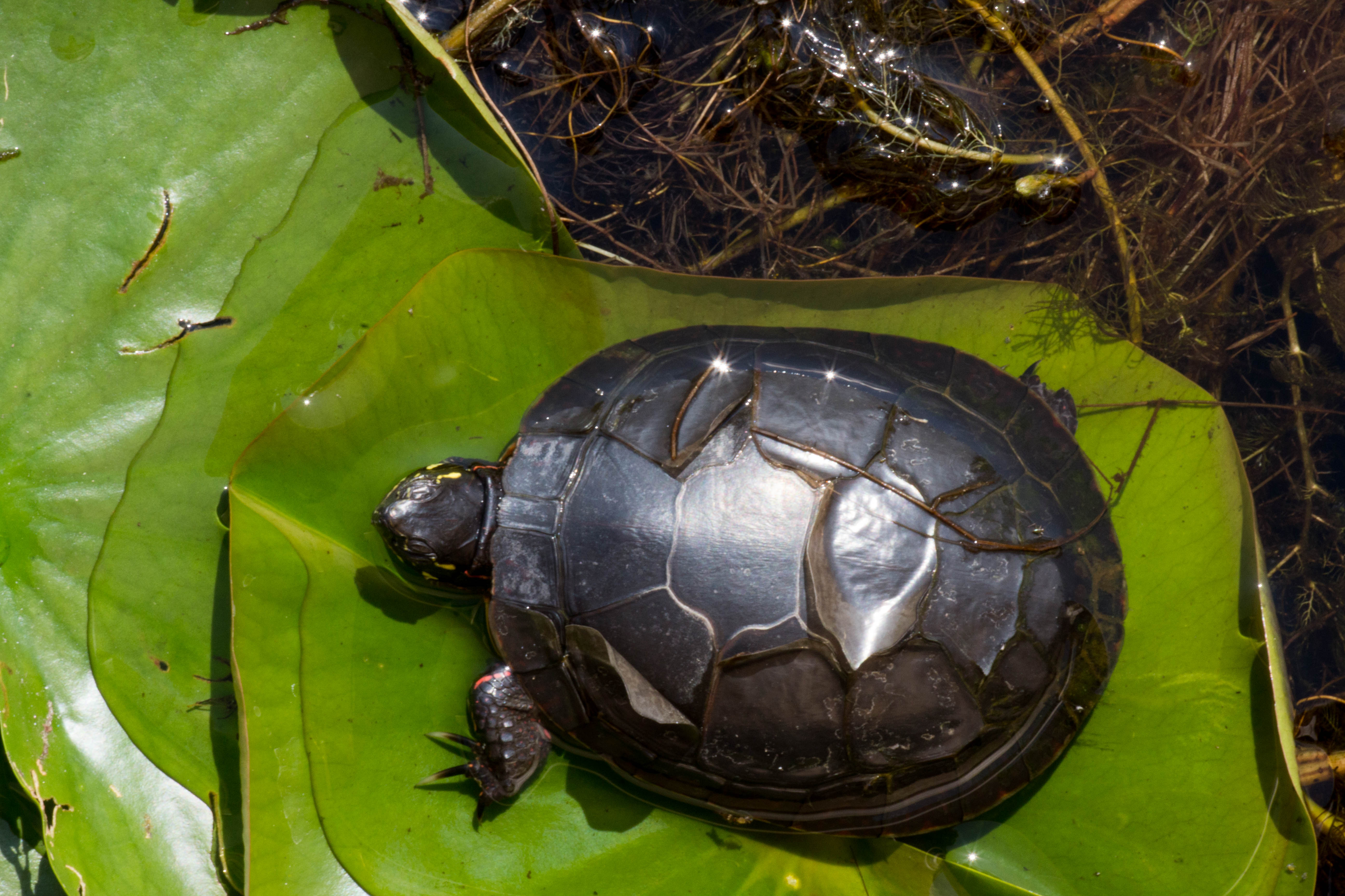 Midland painted turtle showing shedding of scutes